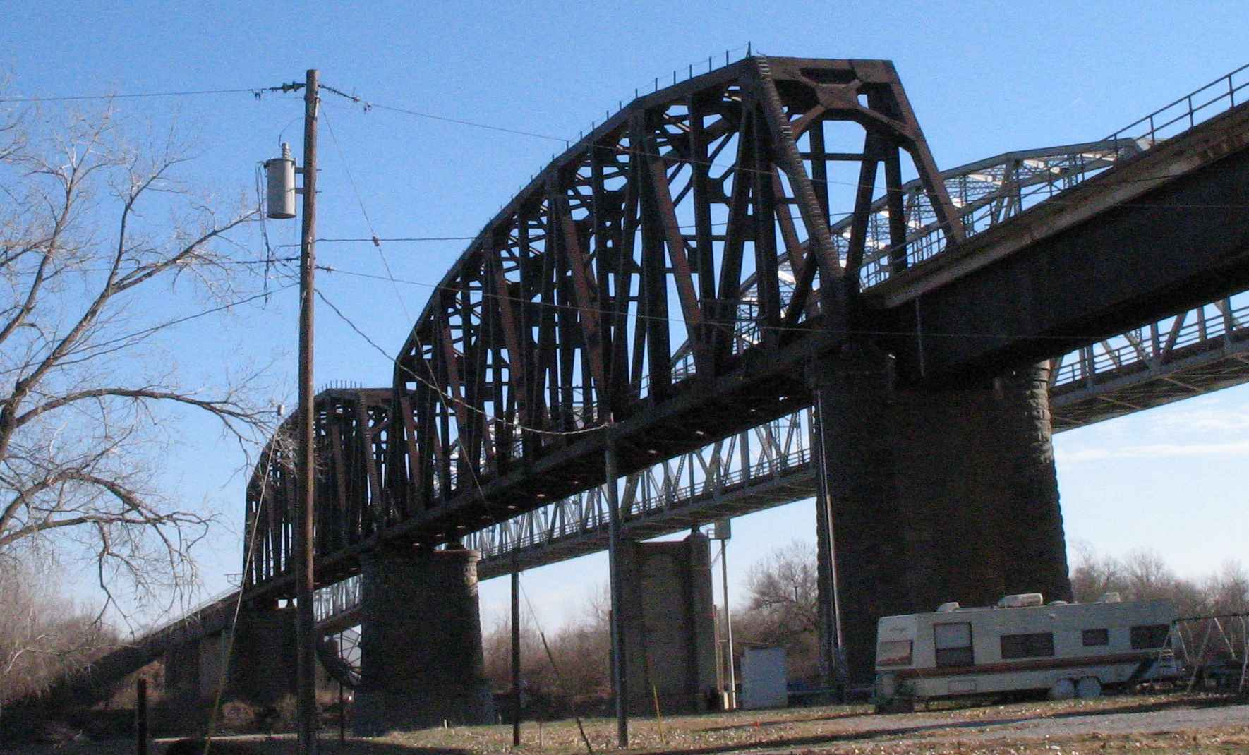 Rulo Rail Bridge from the north. The Rulo Bridge is behind it.